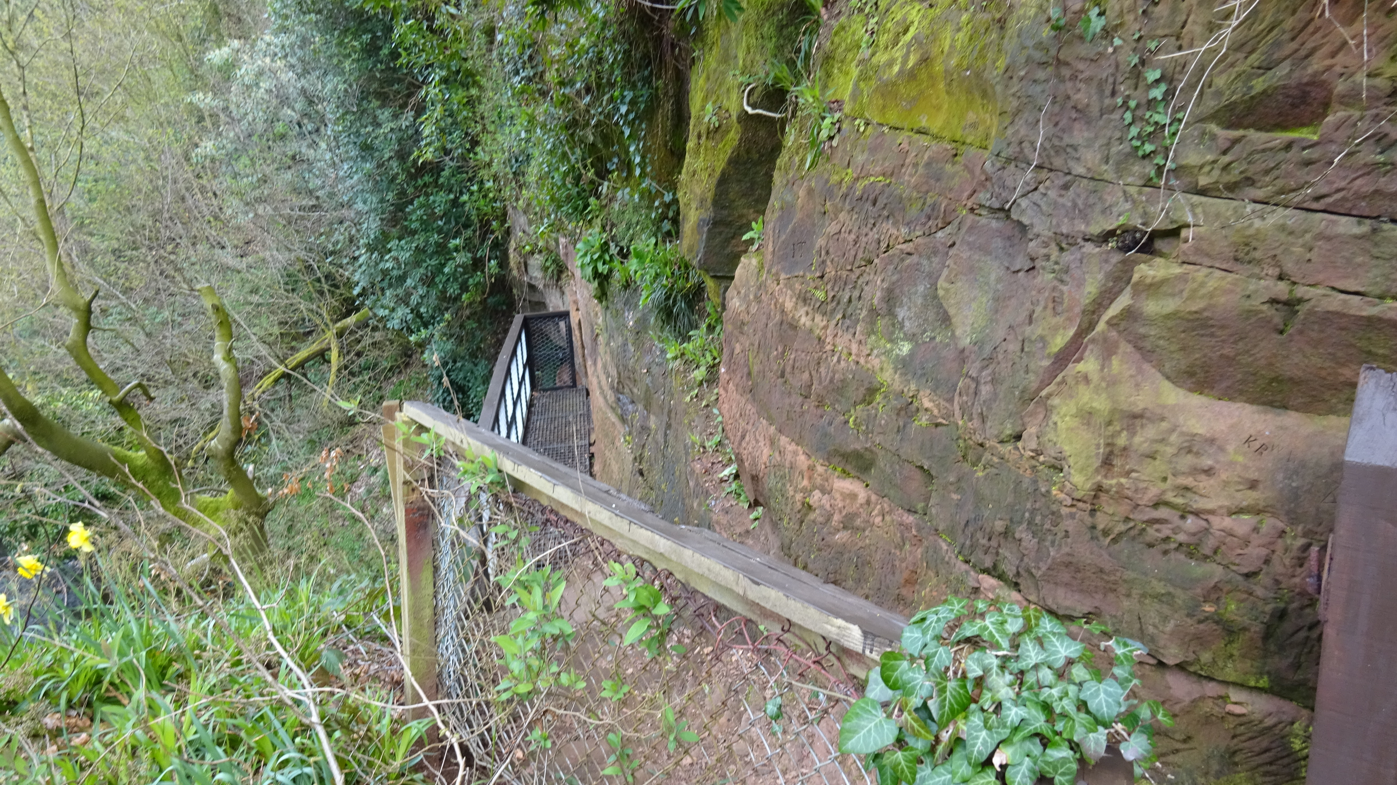 Bruce's Cave, the access detail, Kirkpatrick-Fleming, Dumfries & Galloway, Scotland.